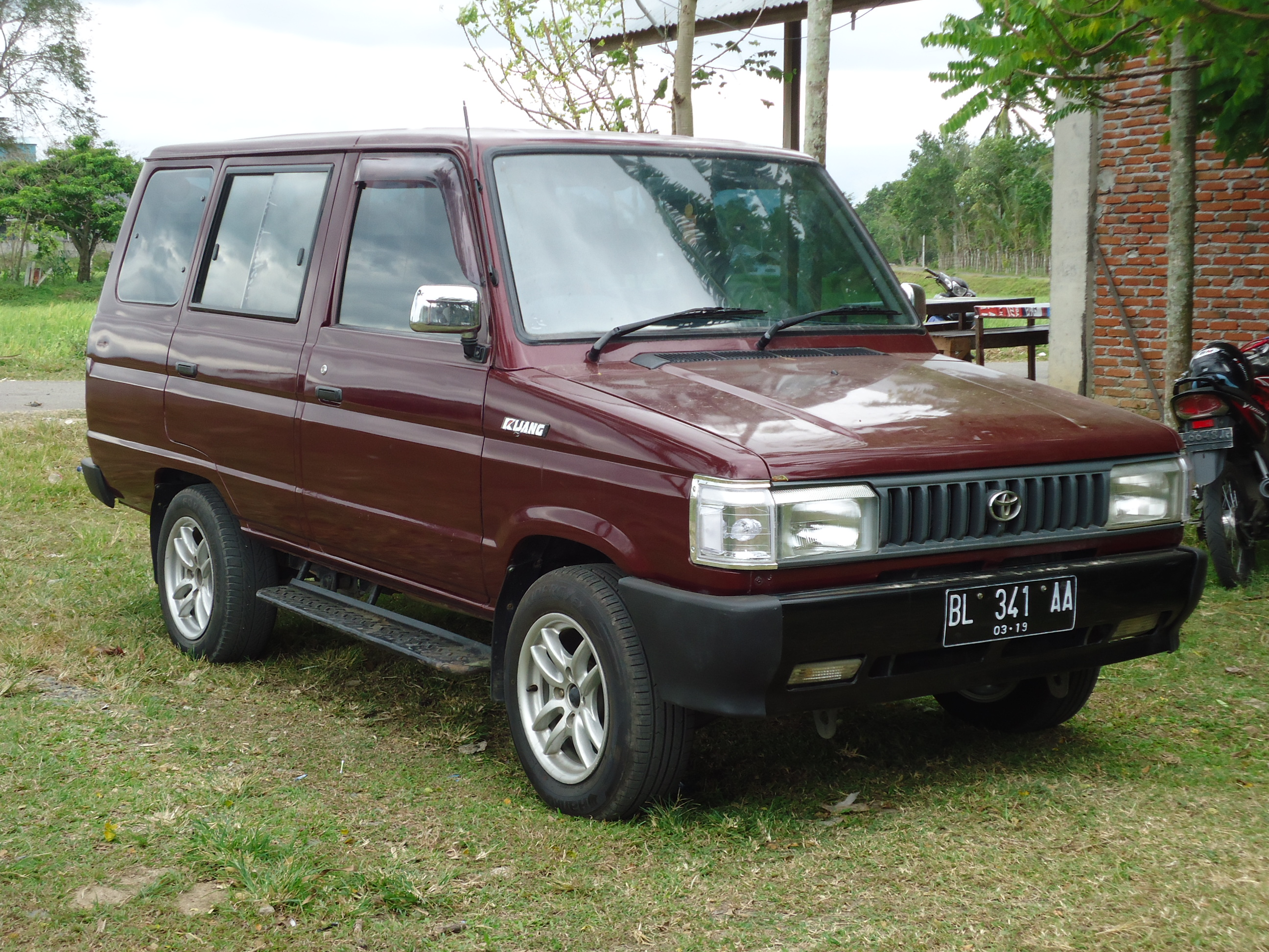 A 1993 Toyota Kijang 1.5L Deluxe SSX photographed in Aceh Besar, Indonesia.